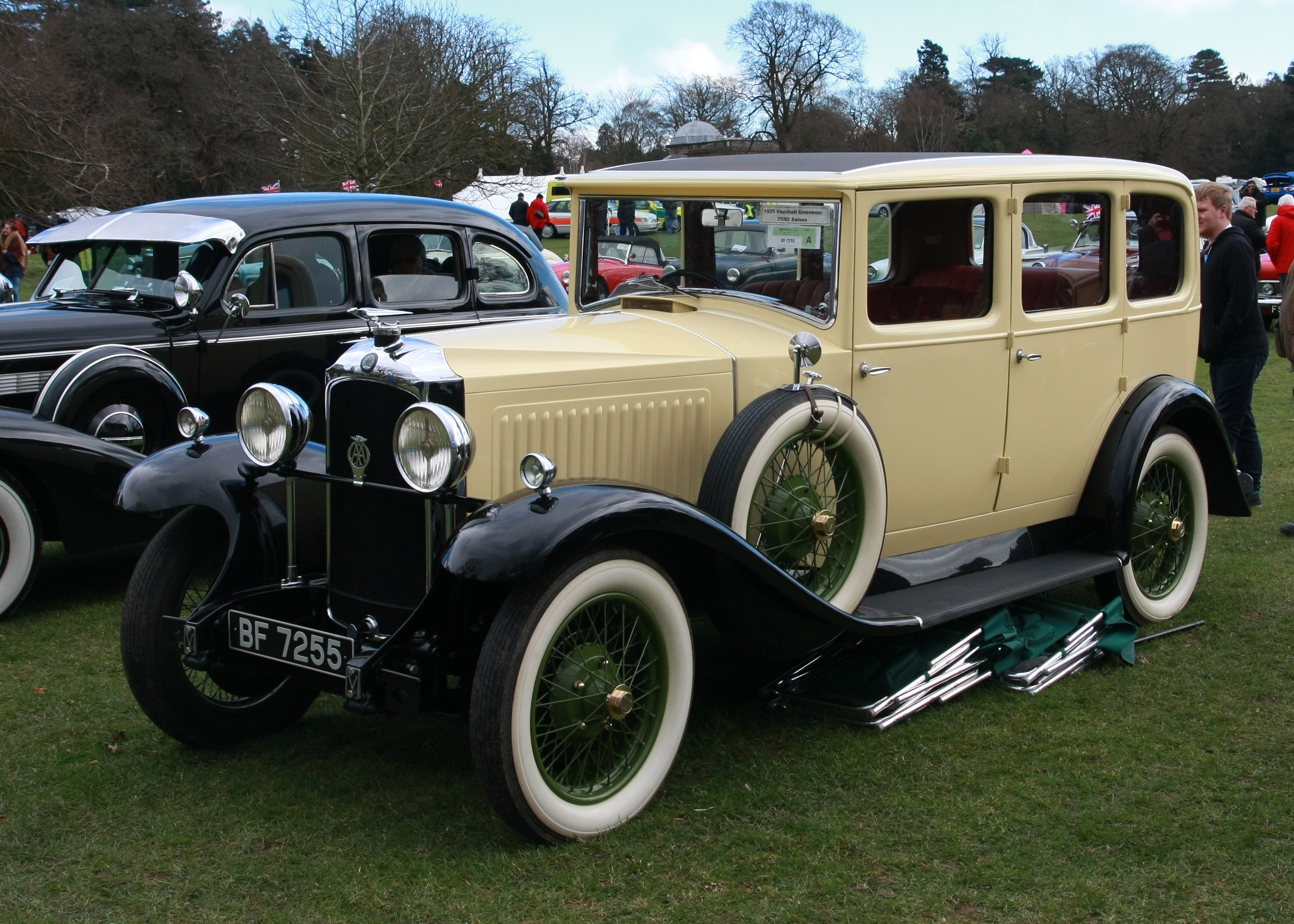 Vauxhall 20/60 "Grosvenor" (1929) at Weston Park (2016)